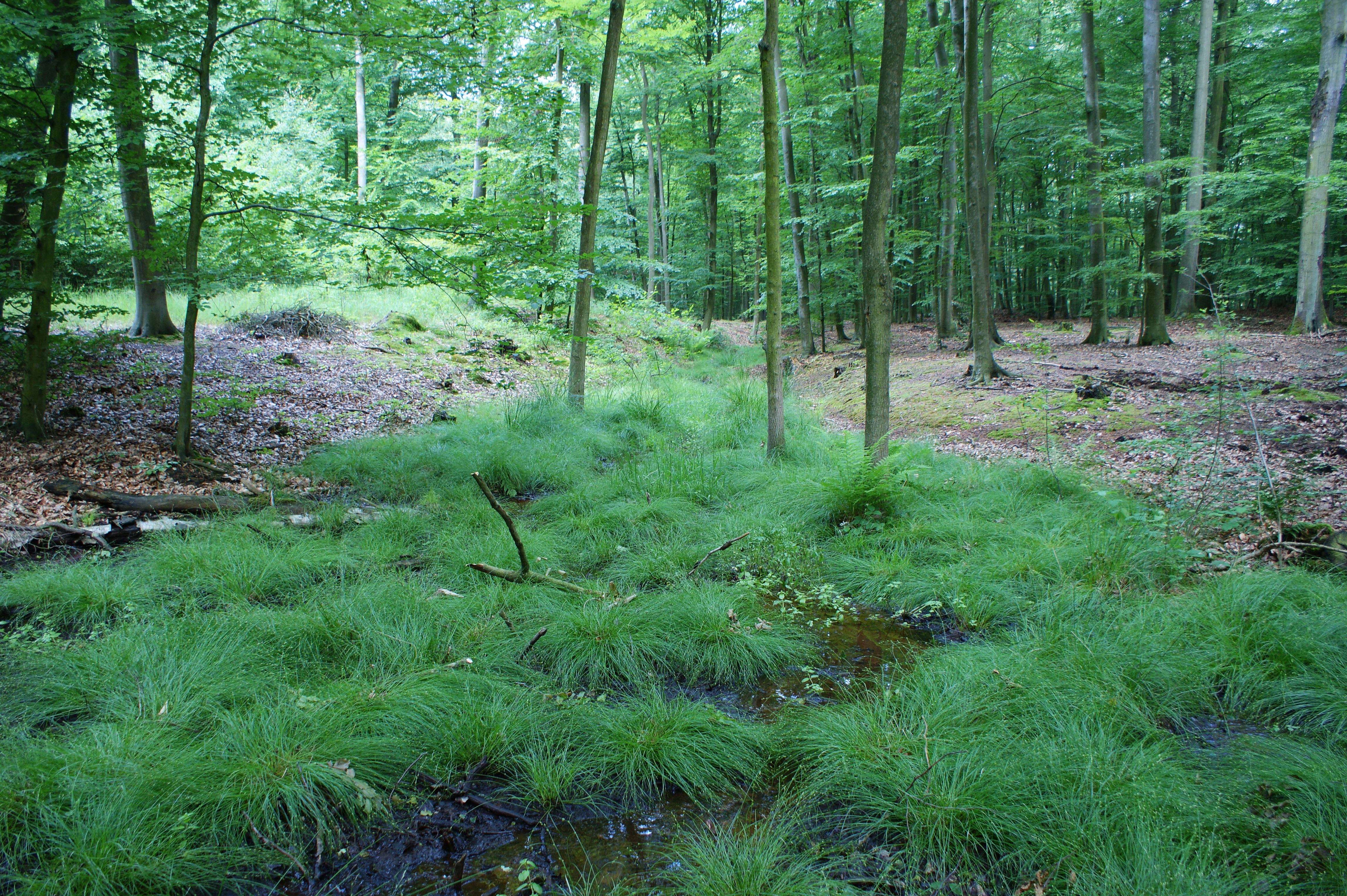 Community of Carex remota at the midforest stream. Forest in Szczecin (NW Poland)